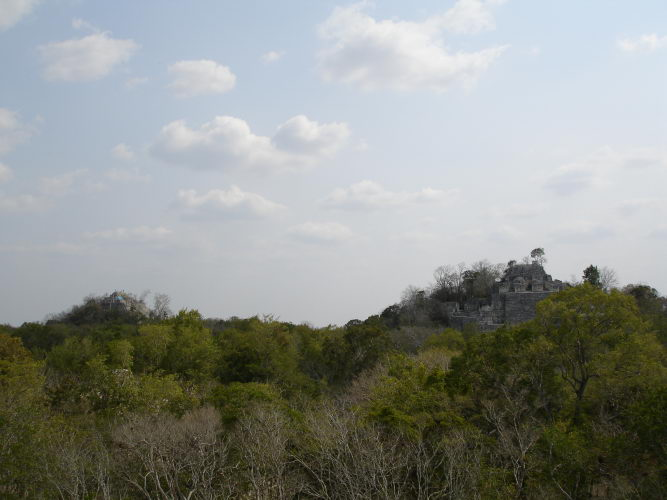 Maya pyramid at Calakmul, Campeche, Mexico